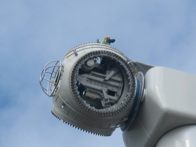 Hub secured to Turbine Tower No 11. With the hub now firmly secured to the rotor shaft, with 60 huge bolts, an engineer now prepares the hub for the first blade to be attached. 787410 787091 696211 633643 696917 687214 Turbine details: Tower Height: 60m Blade Length: 40m Total Max Height: 100m Manufacturer: Nordex Model: N80